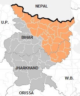 Maithili region OF Bihar and Jharkhand